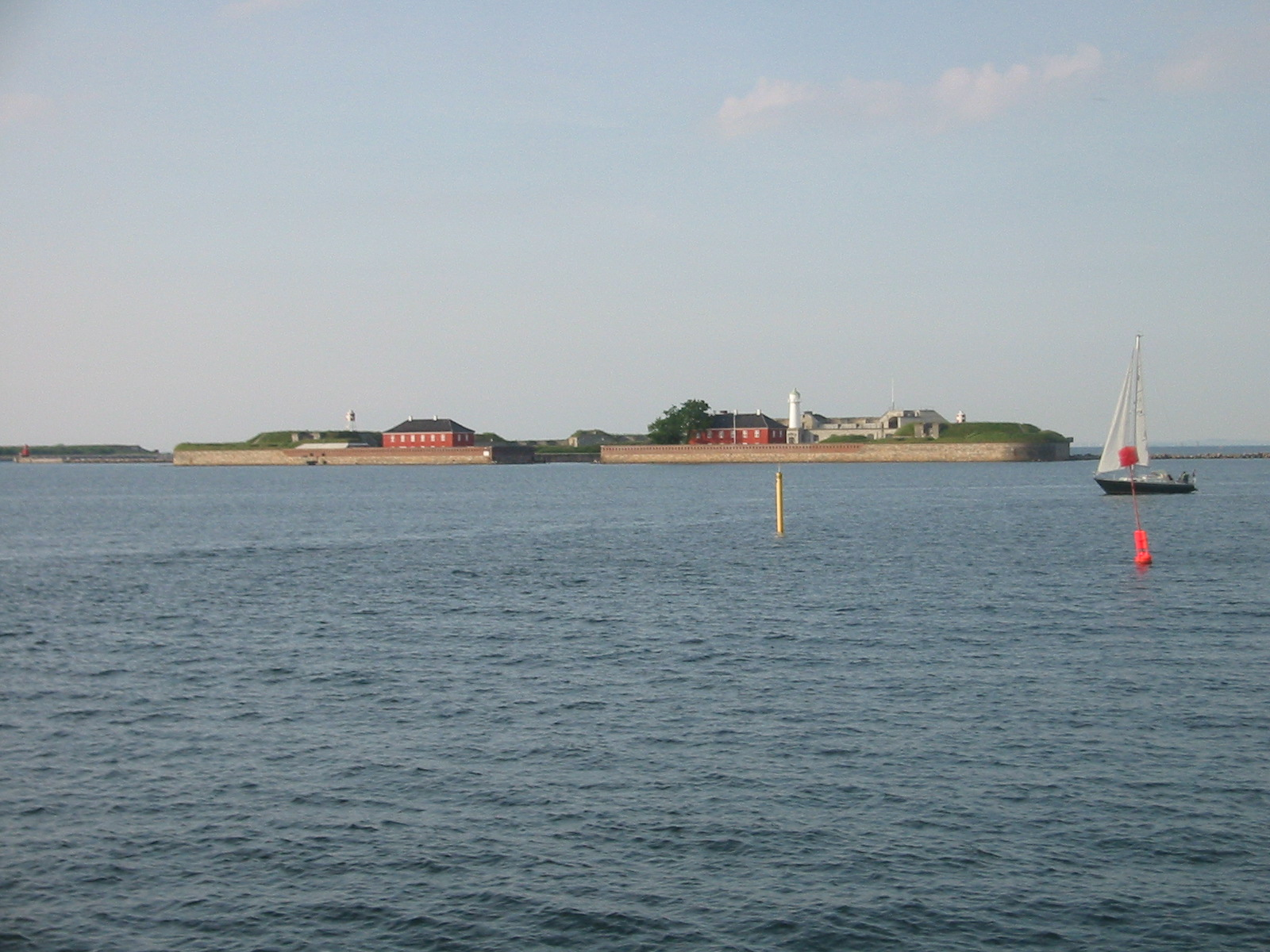 The former sea fortress Trekroner at Copenhagen.